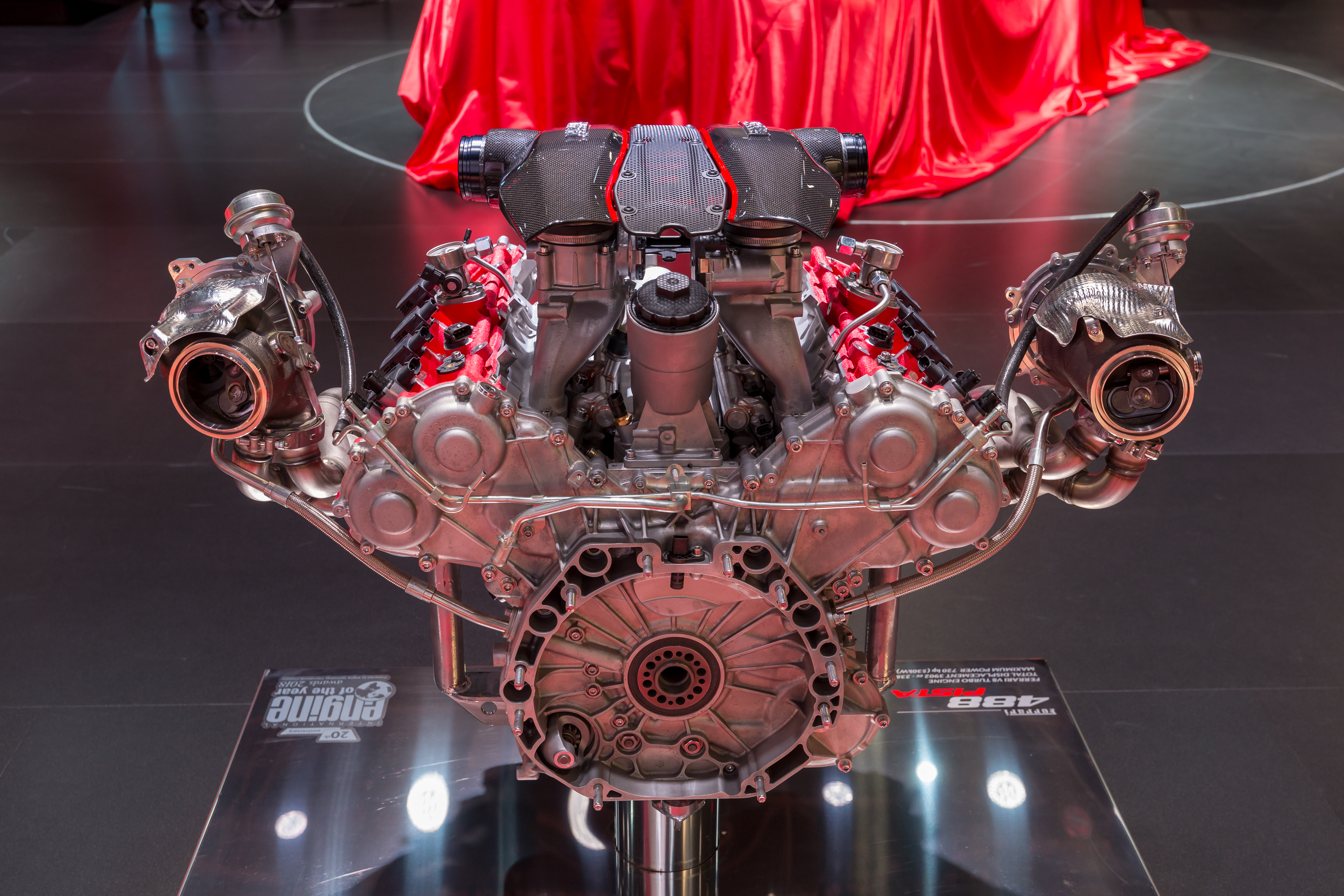 Ferrari Tipo F154CD engine used in Ferrari 488 Pista. Shown at Mondial Paris Motor Show 2018. 720 PS (530 kW; 710 hp) at 8000 rpm.